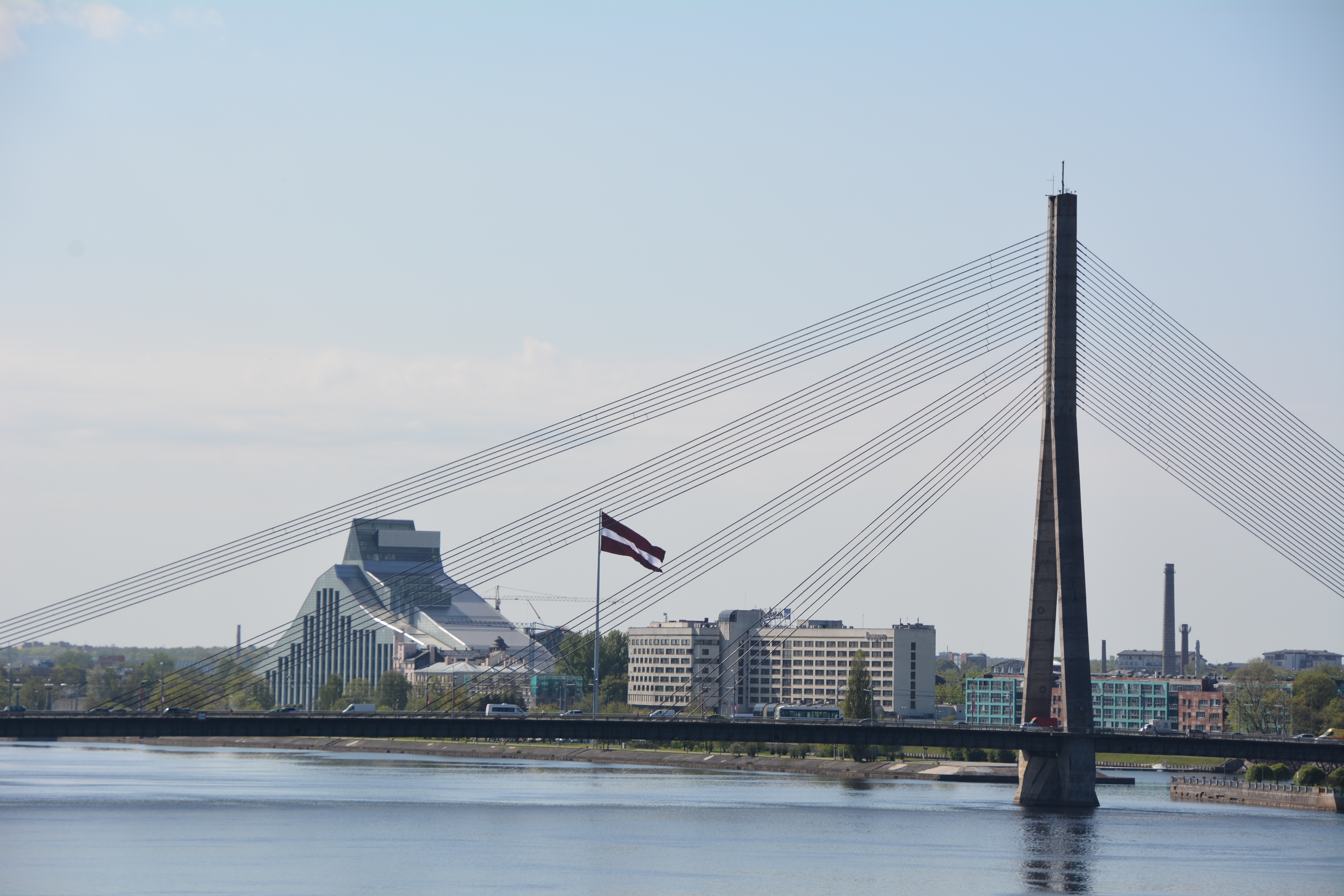 National Library of Latvia, seen from Daugava River , with the Vansu bridge.